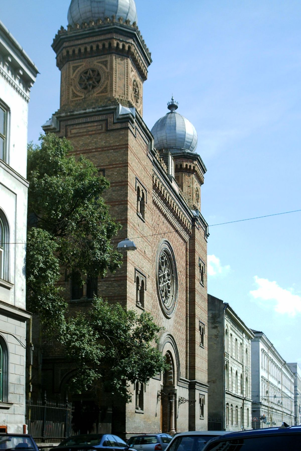 Cetate Synagogue in Timişoara, Romania.